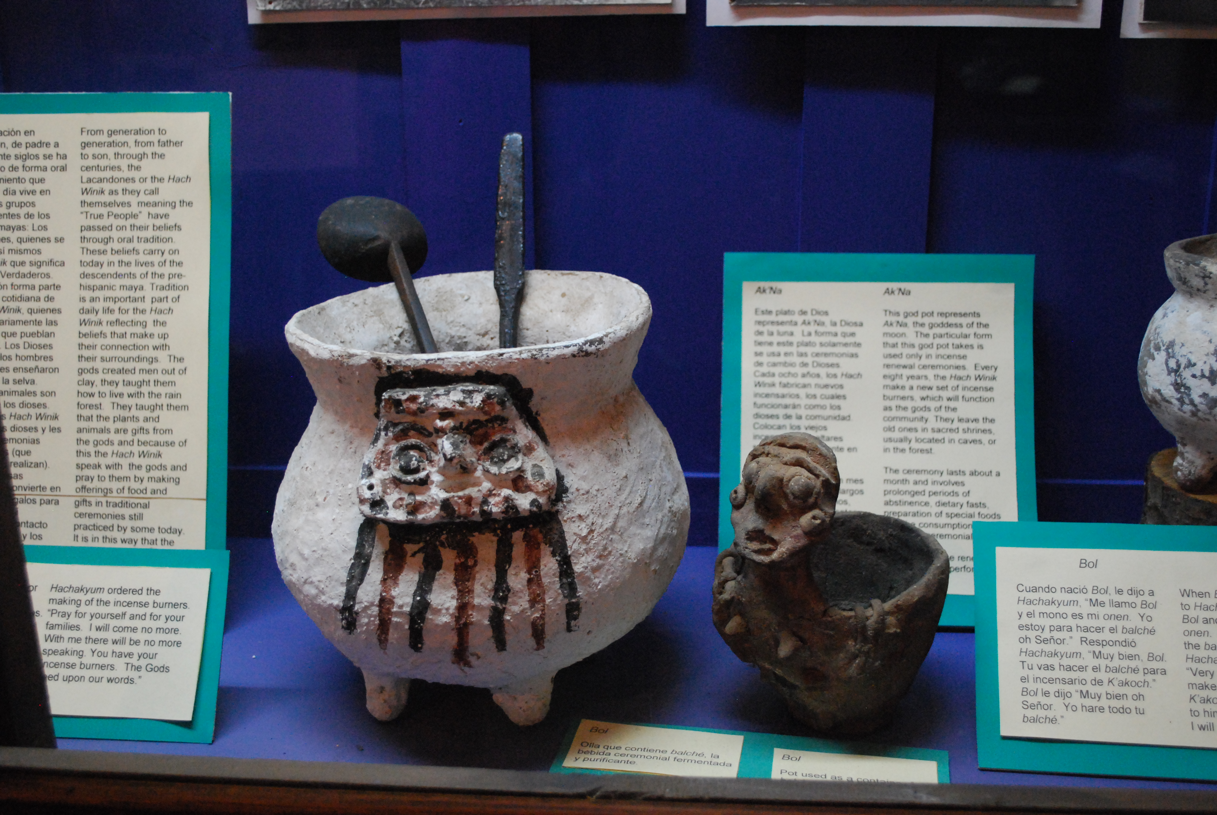 Lacandon ceremonial pot on display at the Casa Na Bolom in San Cristobal de las Casas, Chiapas, Mexico